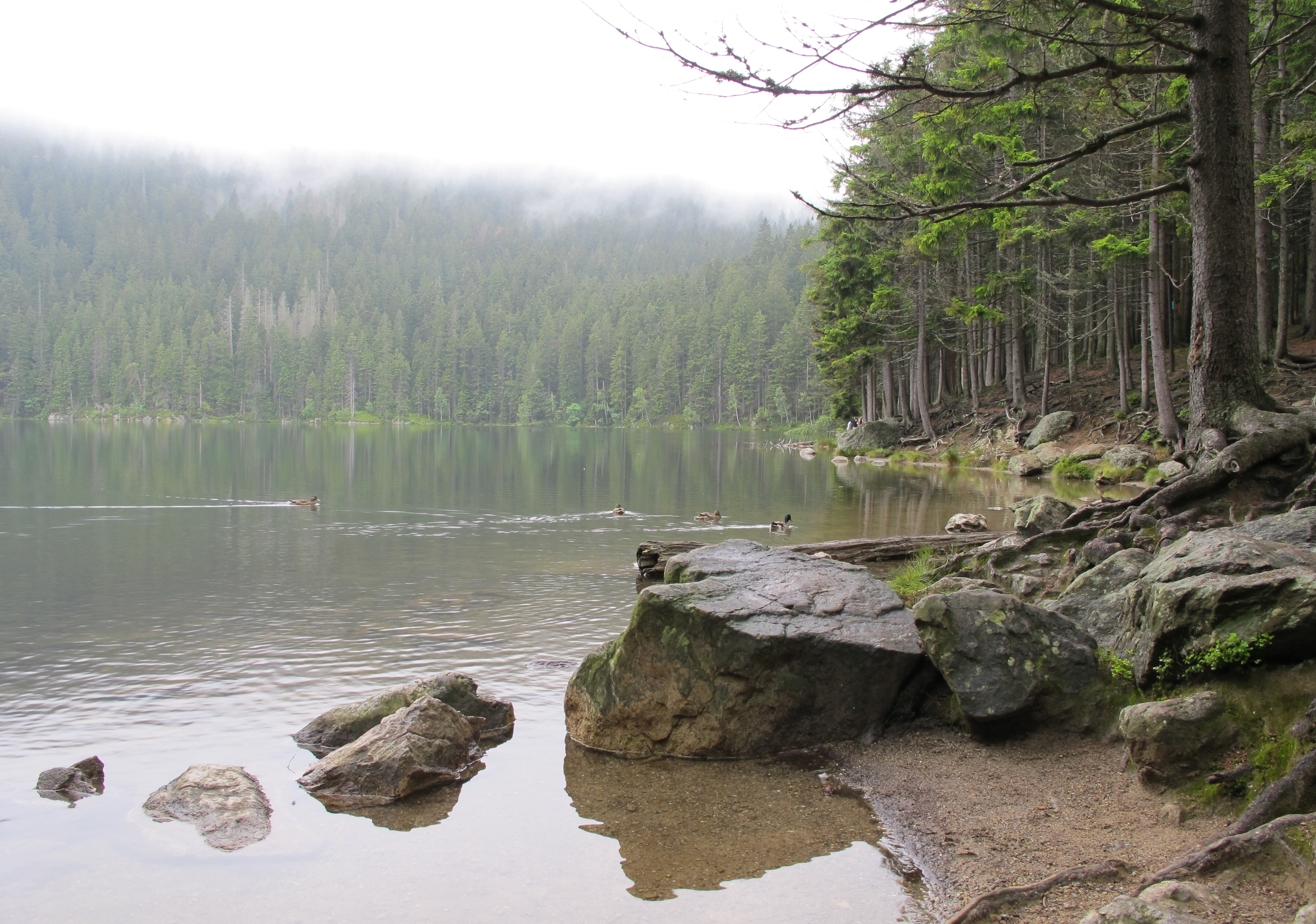 Lake "Čertovo jezero" - in national nature reserve Černé a Čertovo jezero near Železná Ruda in Klatovy District